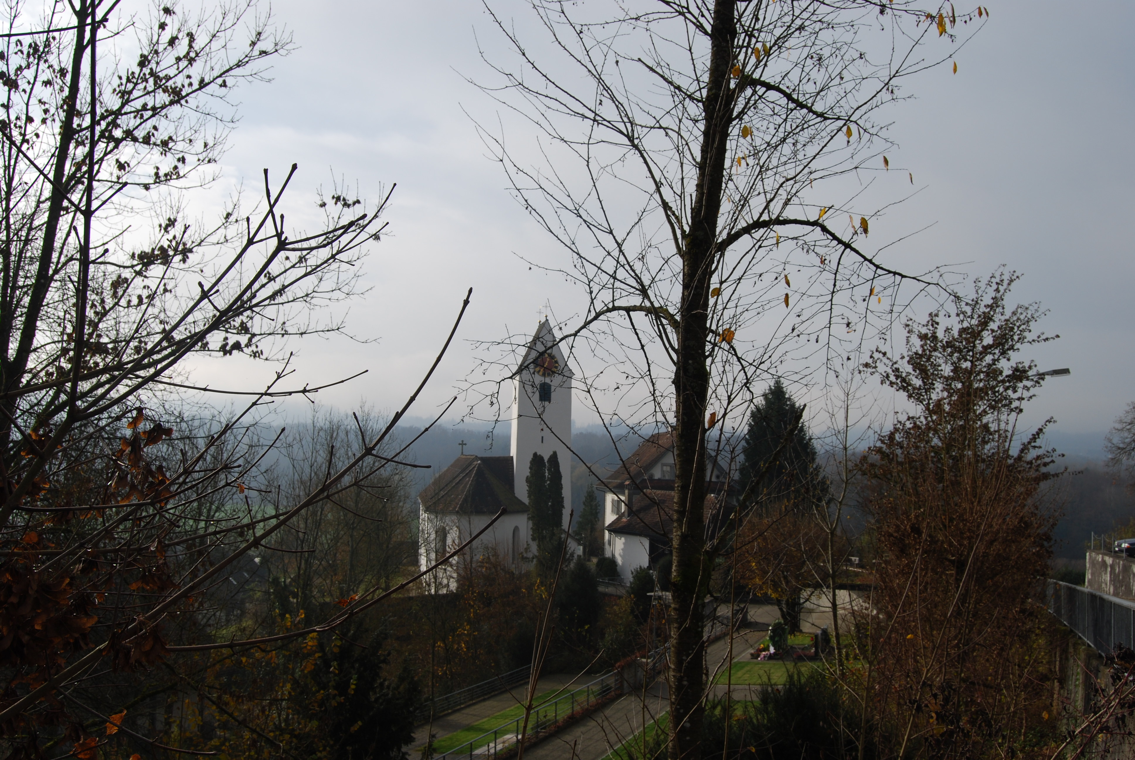 Church of Eggenwil, canton of Aargau, SwitzerlandEsperanto: Preĝejo de Eggenwil, Kantono Argovio, Svislando